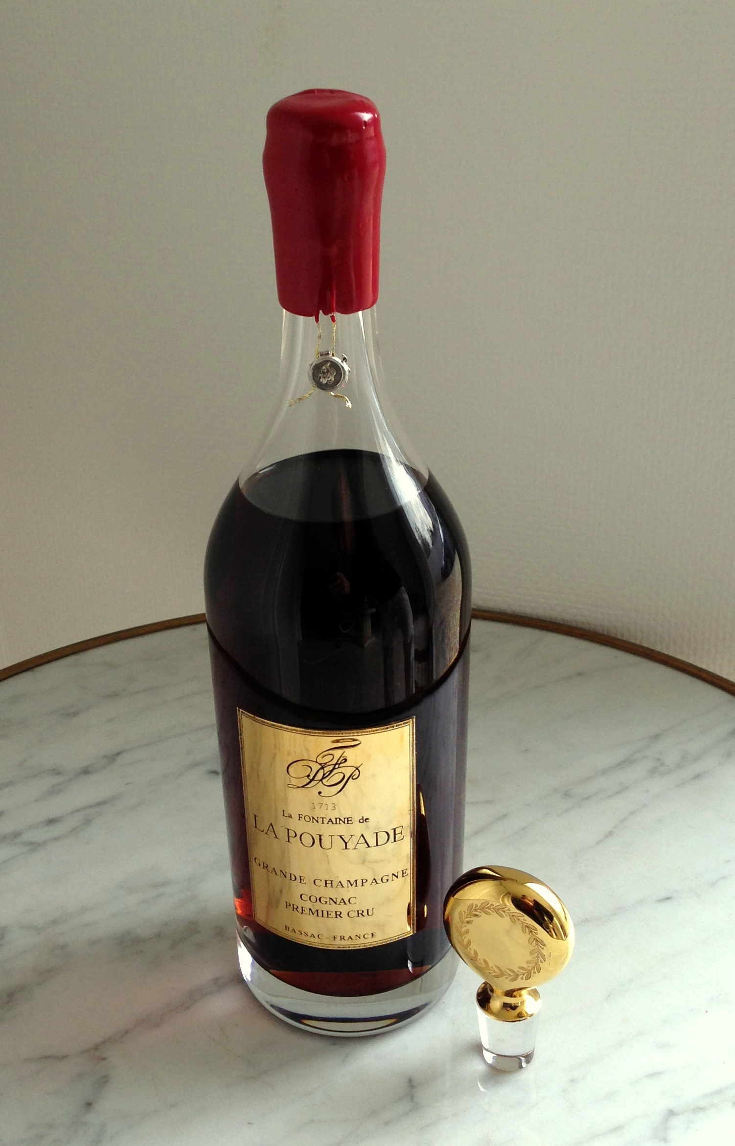 La Fontaine de La Pouyade Grande Champagne Cognac Premier Cru - Baccarat Decanter Edition